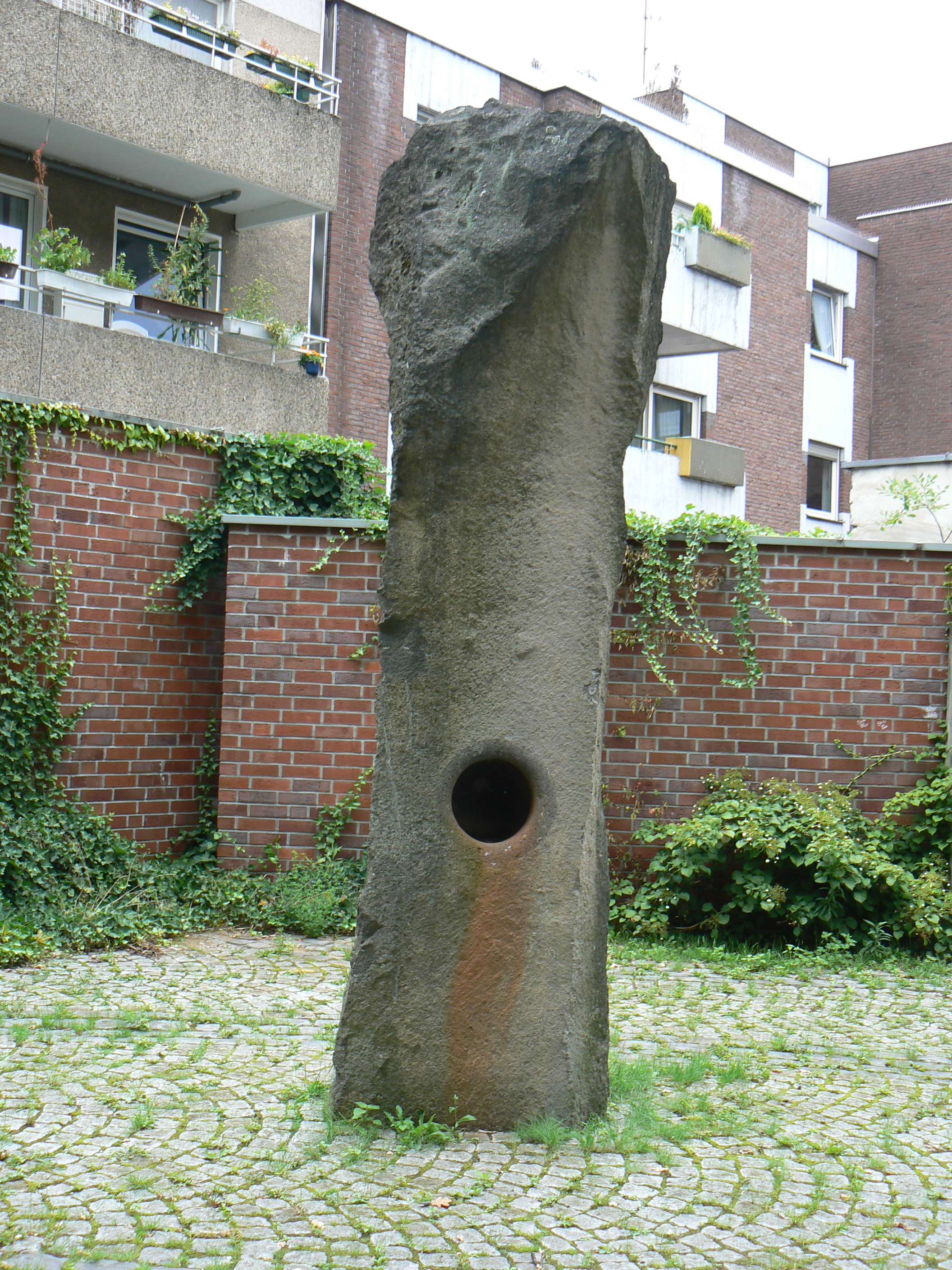 Sculpture: Großer Summstein (1994) by Hugo Kükelhaus at the Glashaus-Innenhof in Herten/Germany